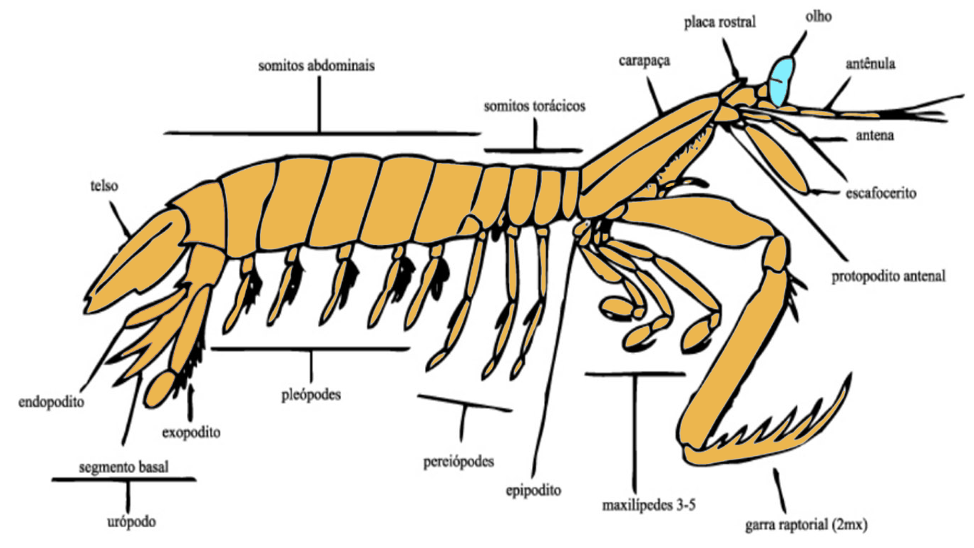 Body Plan of mantis shrimp (Stomatopoda), painted and illustrated in Photoshop CC by Daniel Nakamura